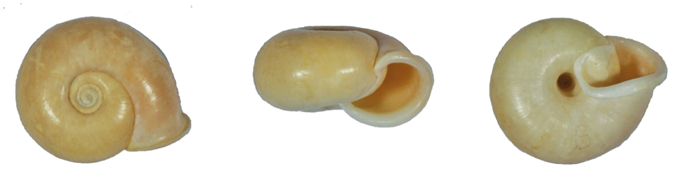 apical, apertural and umbilical view of the shell of the holotype of Chloritis togianensis. From Nationaal Natuurhistorisch Museum Naturalis (formerly Rijksmuseum van Natuurlijke Historie), Leiden, The Netherlands, number 113751. The width of the shell is 18.4 mm.